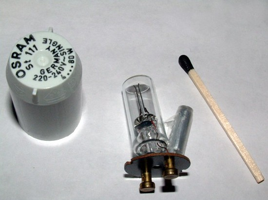 Opened standard type starter of a fluorescent lamp consisting of a special designed neon lamp with built-in bimetallic strips as internal electrical contacts and a capacitor. Photographer: Anton (2005)